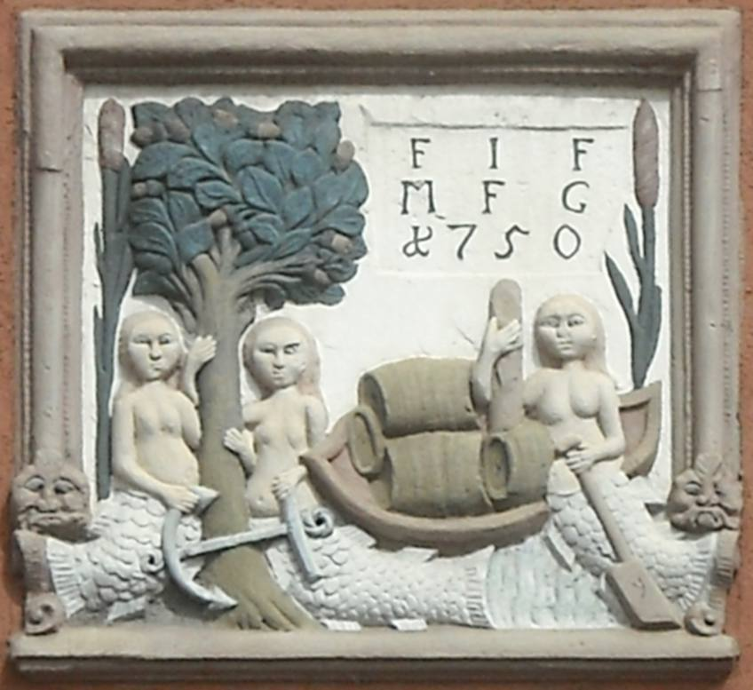 Relief visible au quai des pêcheurs, Sélestat, France